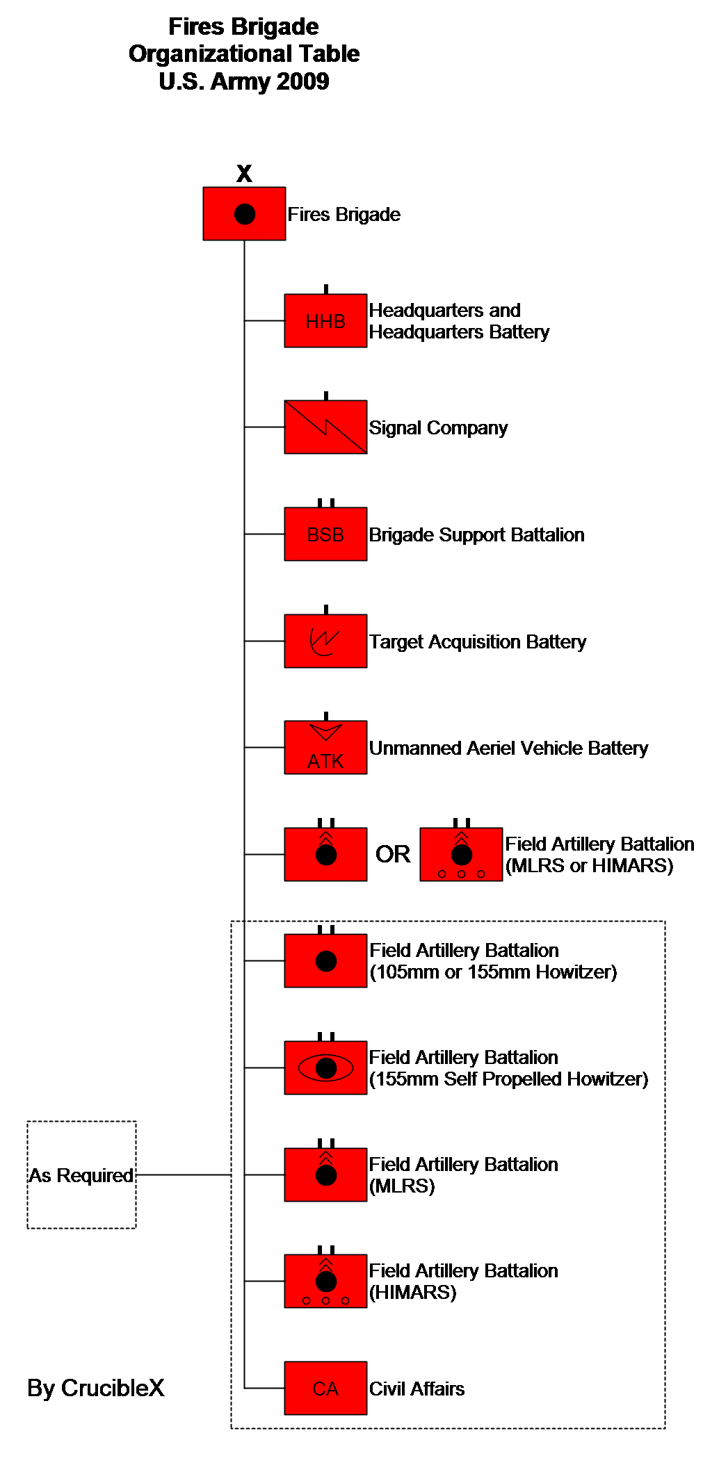 Fires Brigade Organizational Table